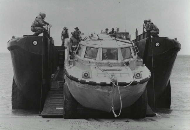 A LARC-LX (BARC) amphibous vehicle unloading a much smaller LARC-V.